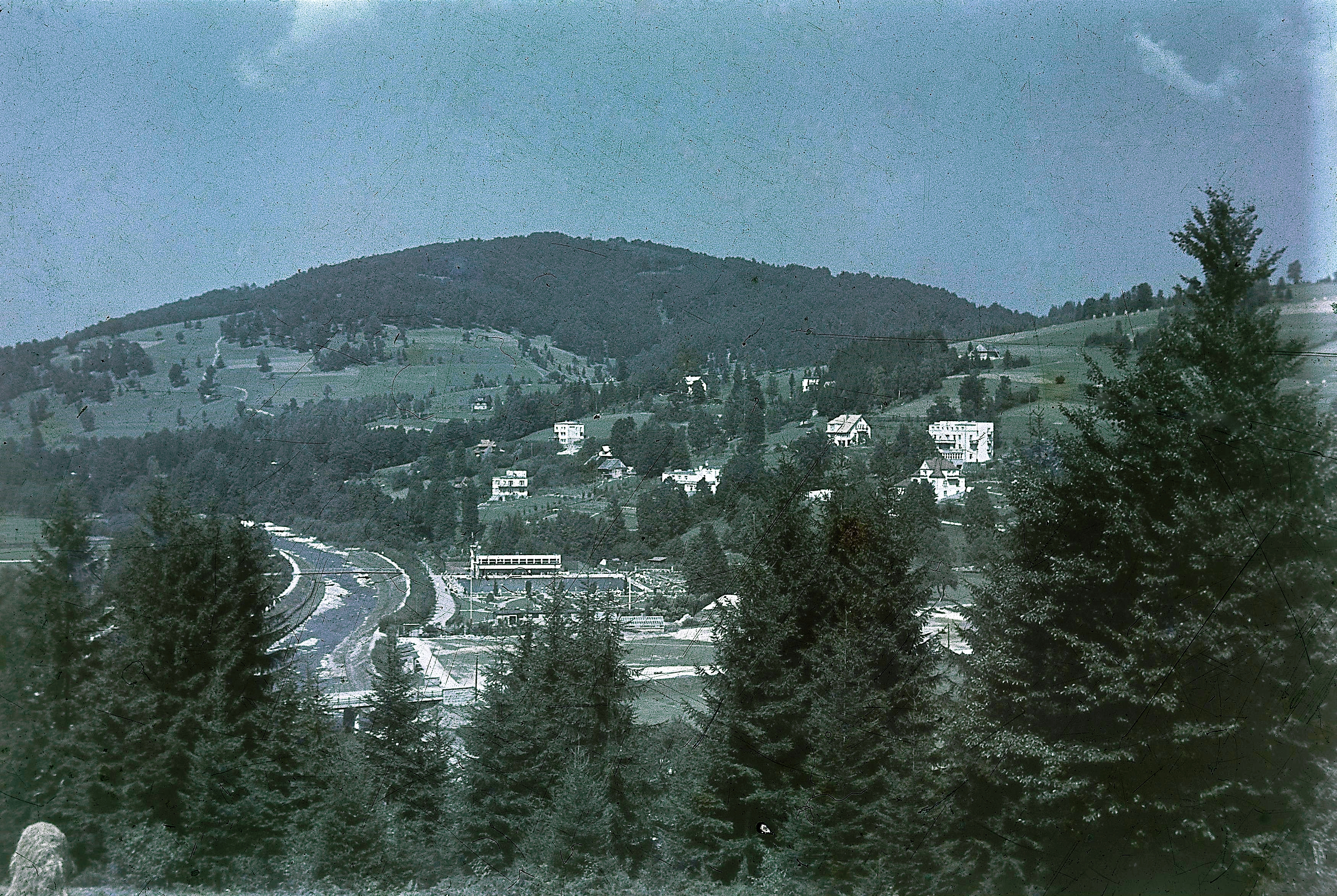 Spa town Wisła in Poland, 1939. Agfacolor photo (invented in 1936), not colorized.